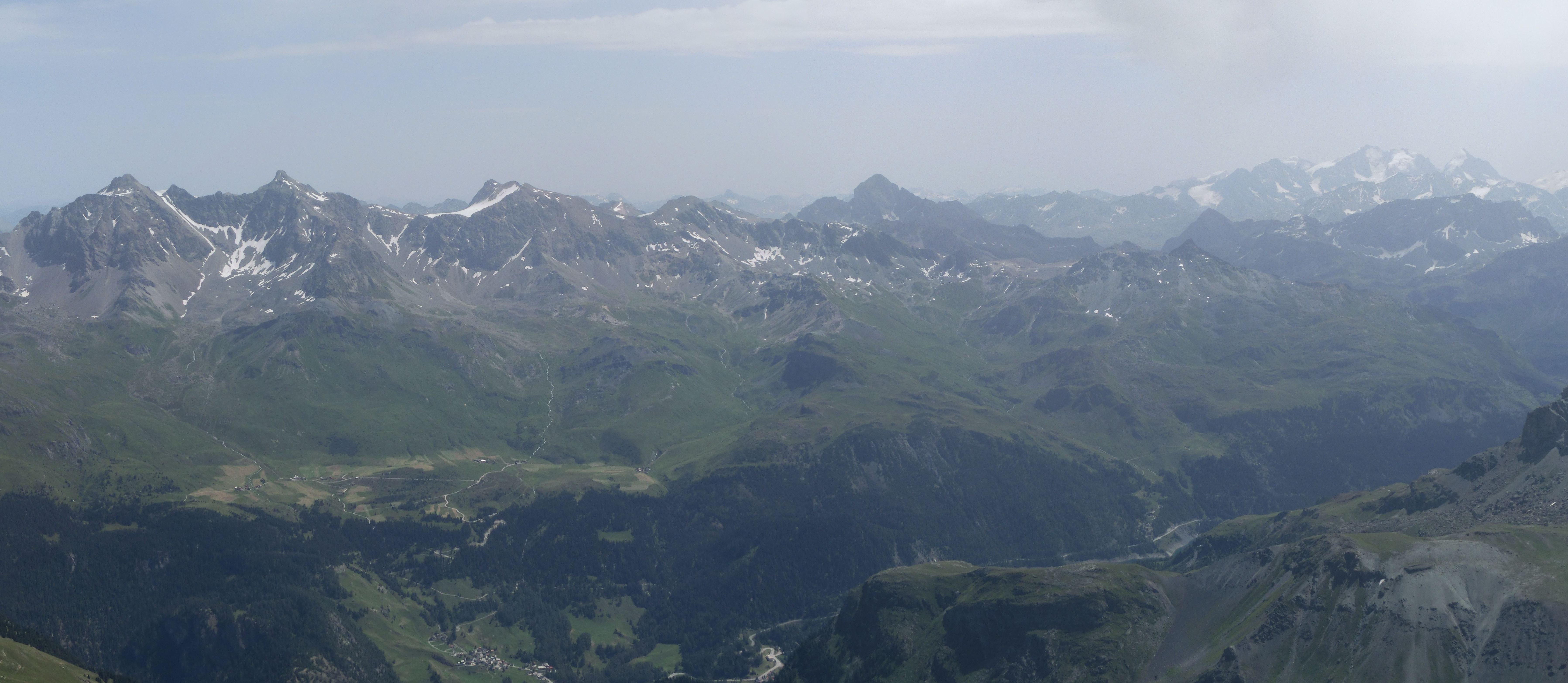 Err-Gebiet with Piz d’Err, Piz Calderas, Tschima da Flix, Piz d’Agnel, Piz Campagnung and Piz Neir, picture taken from Piz Forbesch (Surses, Grison, Switzerland)